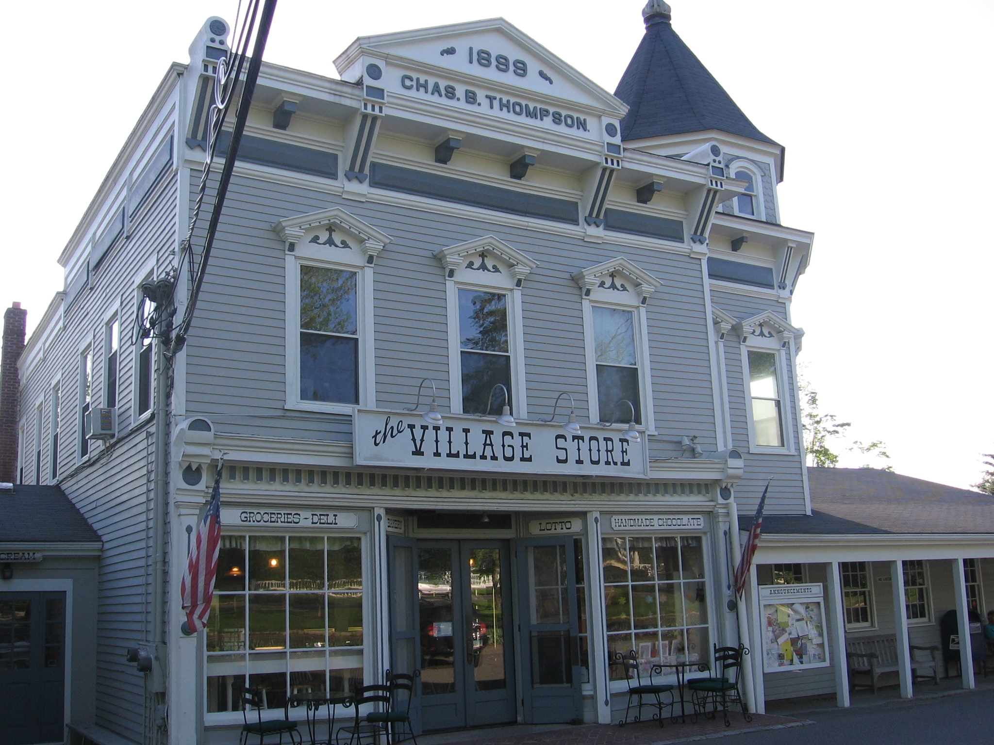 The Village Store in Bridgewater, Connecticut, USA lies along the western side of Main Street (Connecticut Route 133).